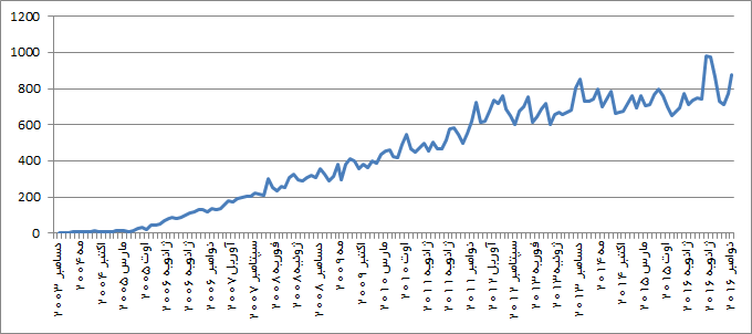 Number of users with more than 5 edits in persian Wikipedia (Dec 2003 - Dec 2016)